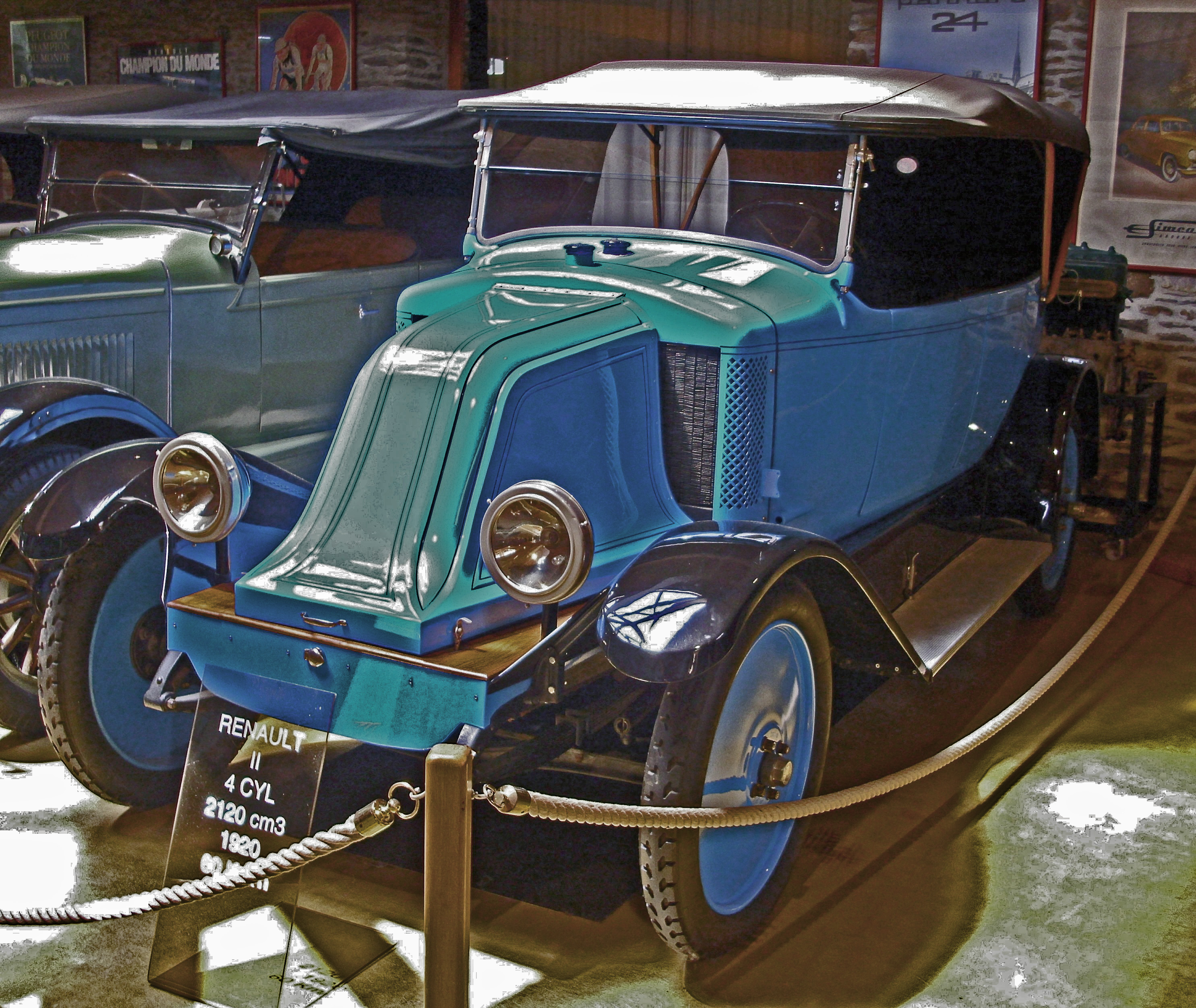 Renault Type II Torpedo 1921-1923